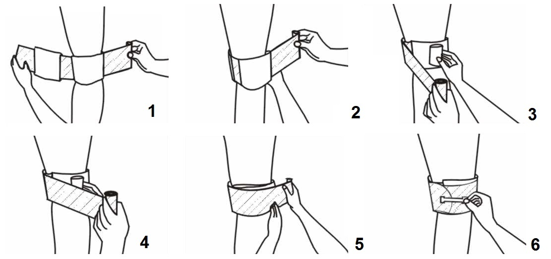 Individual dressing of W type "big" - instructions for use